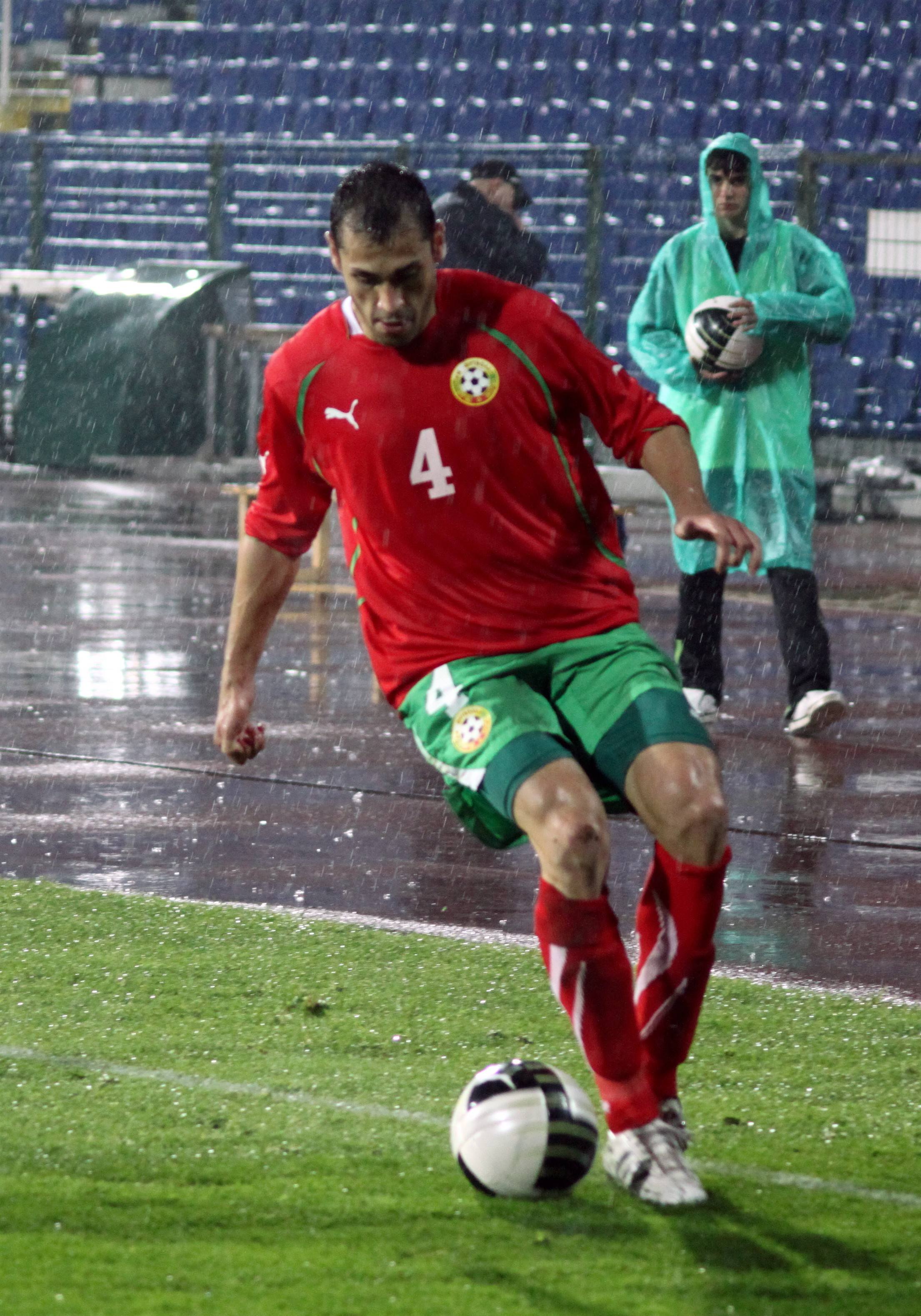 Petar Zanev (Bulgarian: Петър Димитров Занев) (born 18 October 1985) is a Bulgarian footballer, currently (as of June 2008[update]) playing for Litex Lovech as a defender. He has played for the Bulgaria national football team.